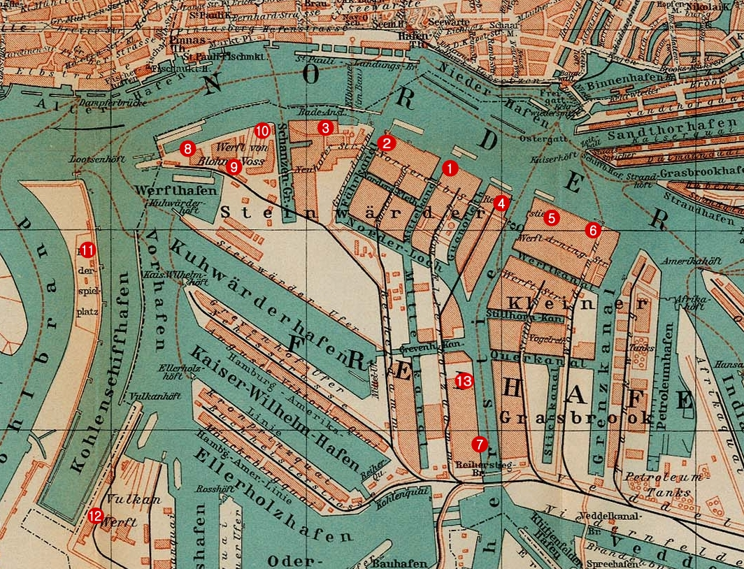 Map of Hamburg and Altona, Germany, 1910